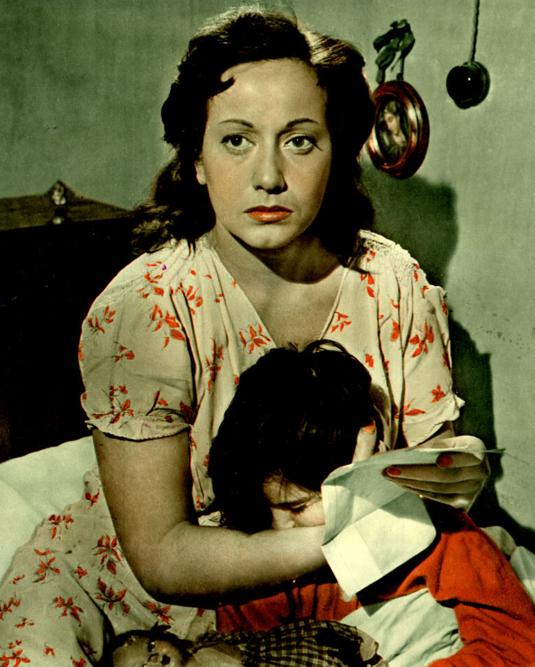 screenshot from the film Tormento d'anime (1951)